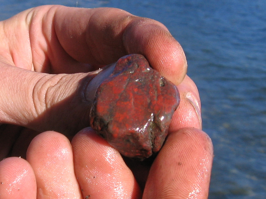 A piece of jasper fresh out of the ground. This photo was taken by Ryan Bushby(HighInBC) with his Canon PowerShot A520. To see more of his photos see his gallery here: [1].